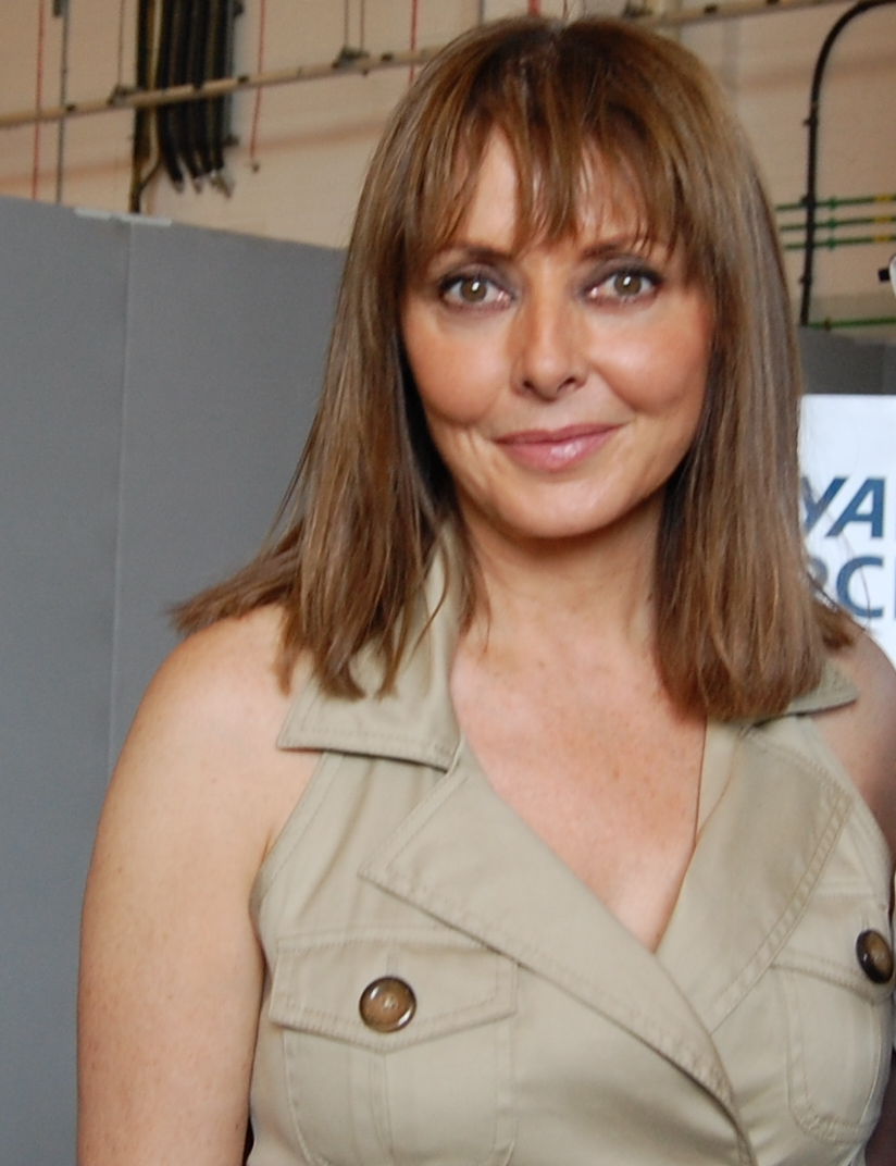 Carol Vorderman posing after her charity presentation in hangar 4 at the RAF Waddington Airshow 2011